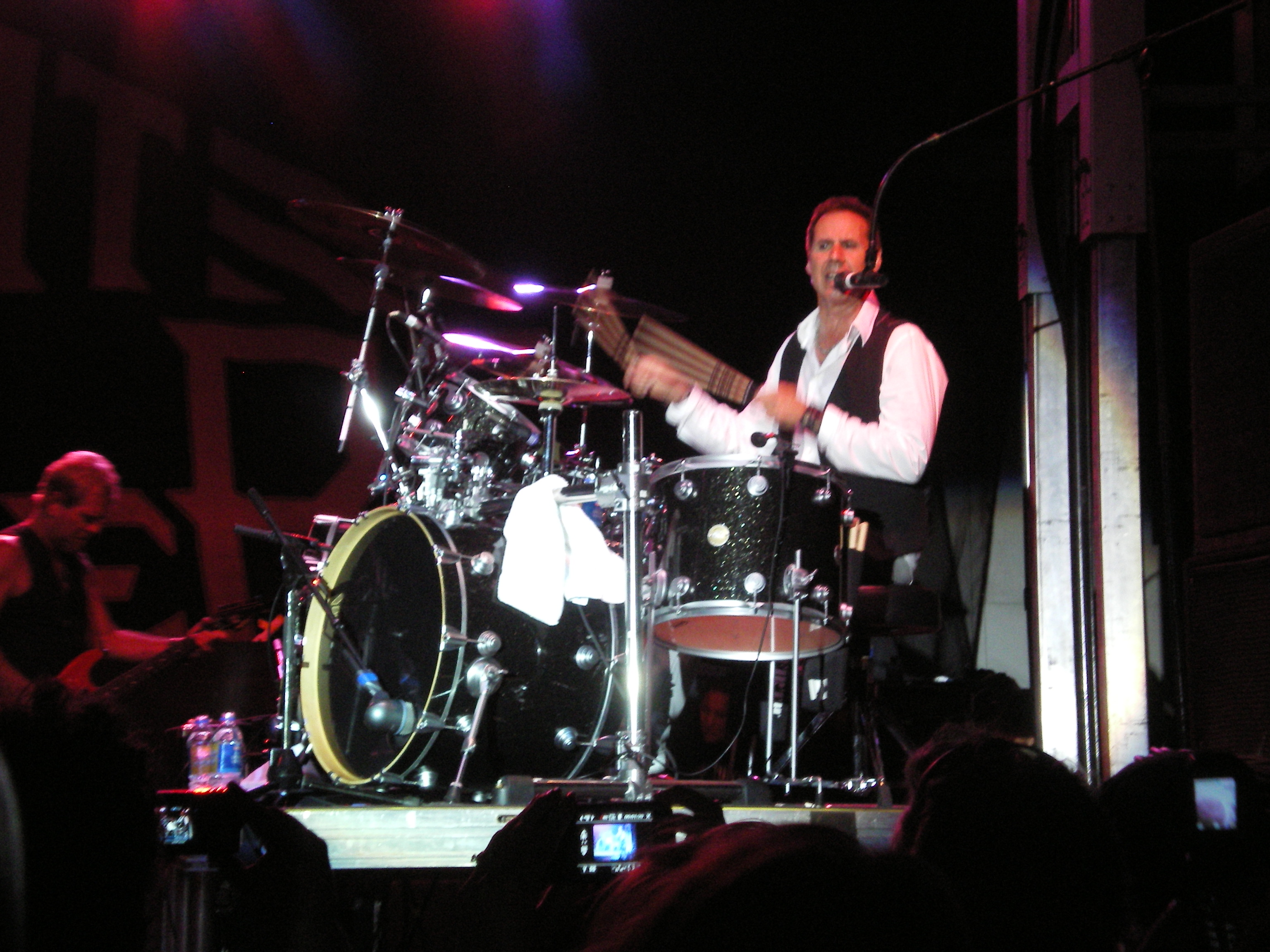 June 6, 2009 at Old Shawnee Days in Shawnee, KS.